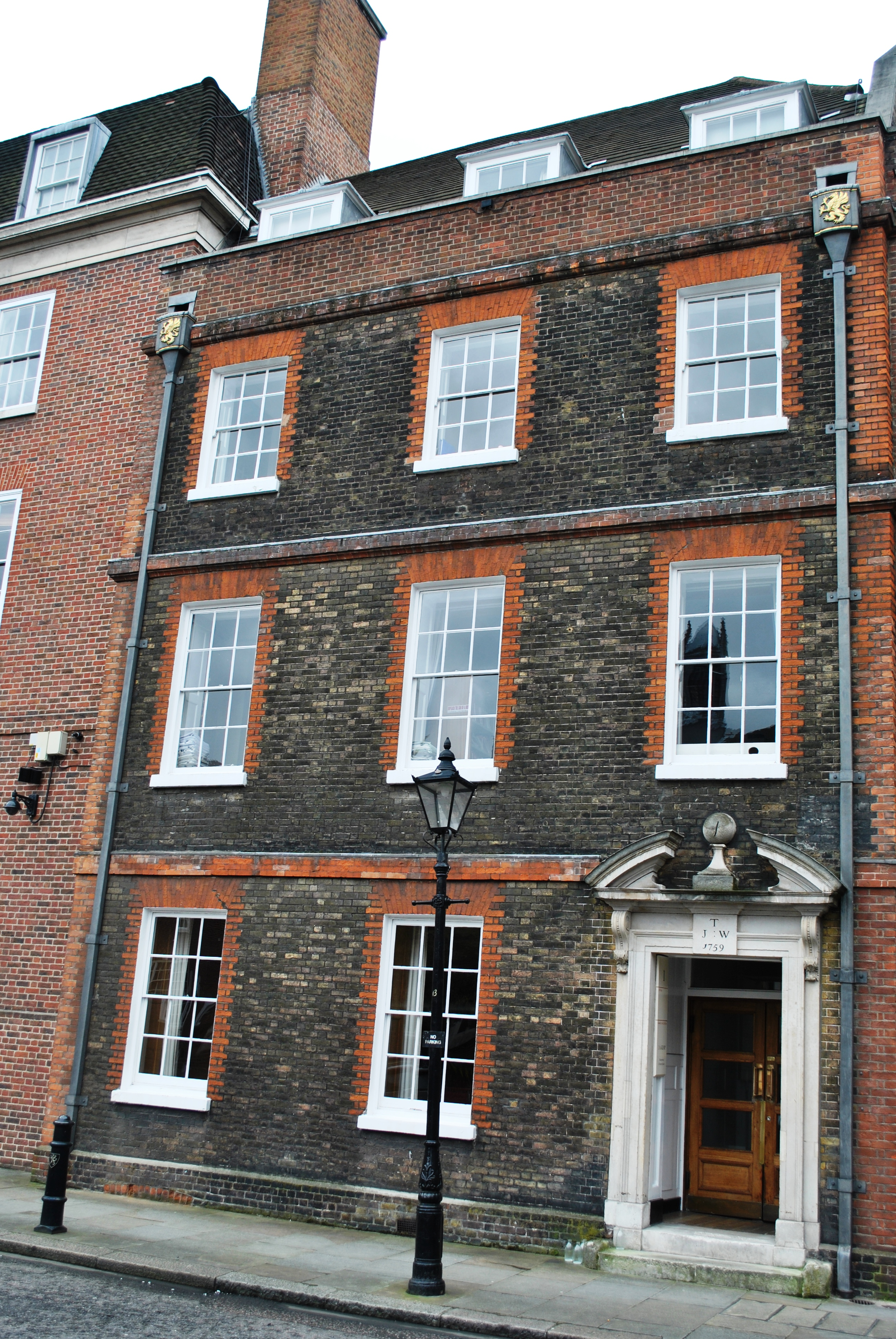 Image originally published in Queer Places: Retracing the Steps of LGBTQ people around the World Authored by Elisa Rolle